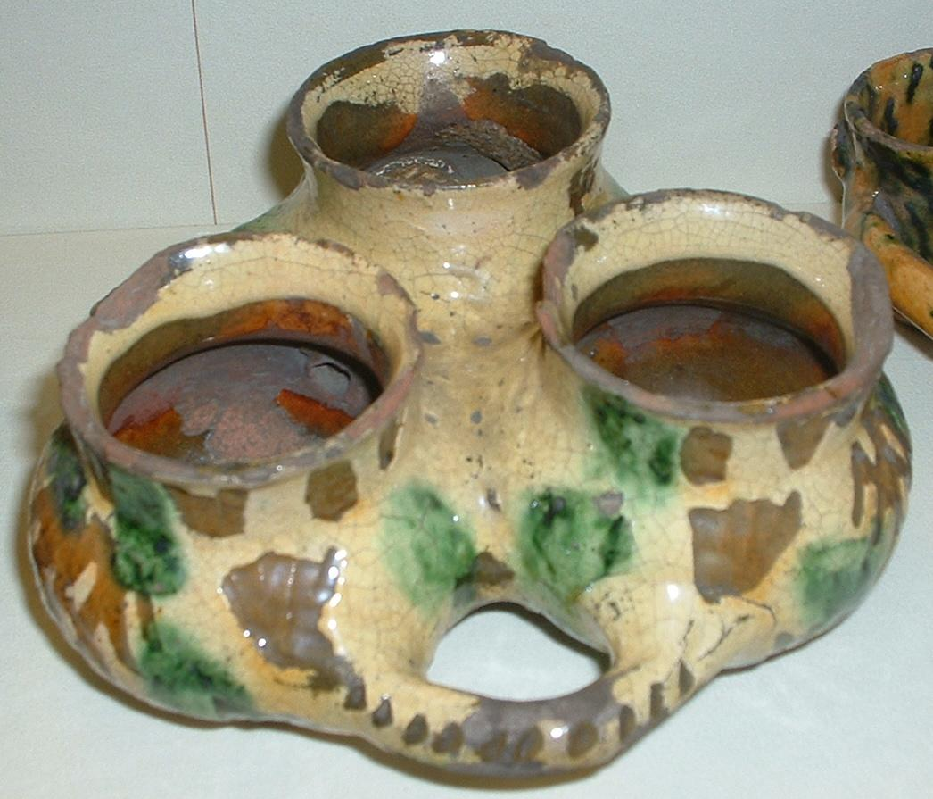 From the late 17th to the 19th century the Donyatt potters produced a series of vessels solely for amusement: puzzle jugs and fuddling cups. With both, the uninitiated had to attempt to drink the contents. The cups have hollow interconnections that allow the contents to be drunk without spilling. Photograph was taken in the Somerset County Museum in Taunton